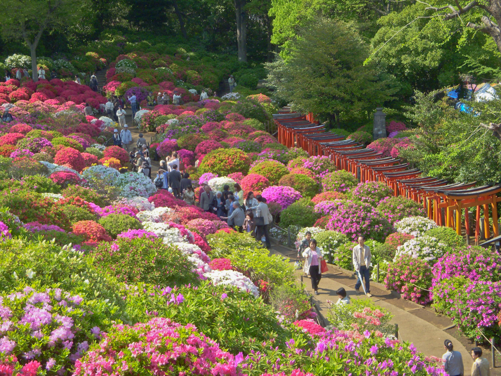 Azalea Festival on the grounds of Nezu Shrine, Bunkyo, Tokyo